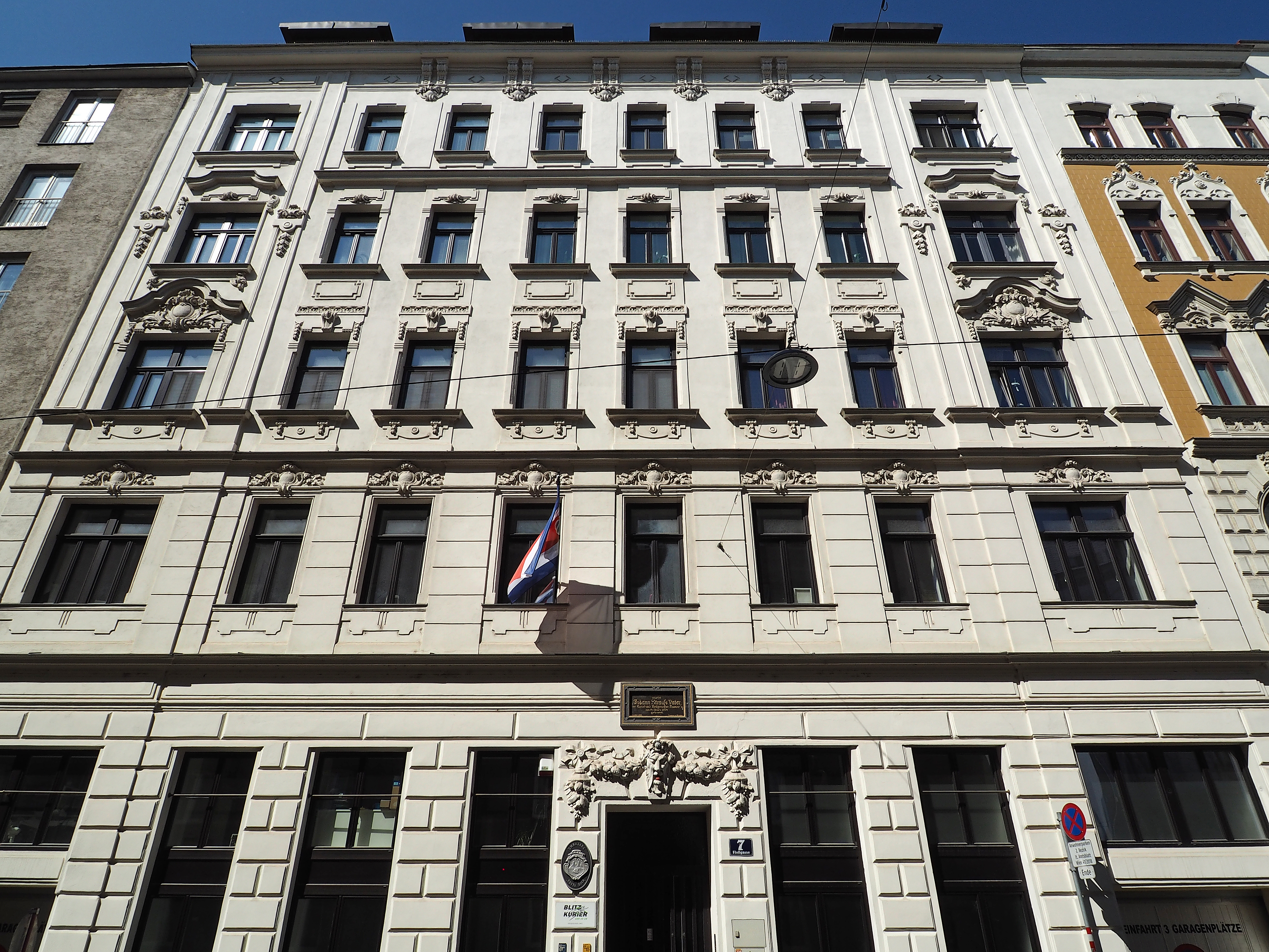 Building Floßgasse 7, 1020 Vienna; Embassy of Costa Rica. Architect: Neumann Tropp (